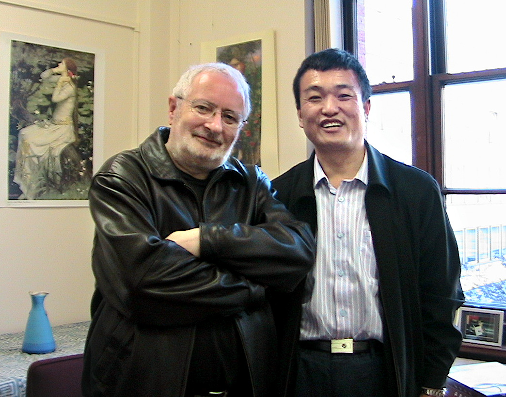 Prof. Terry Eagleton and Prof. Wang Jie